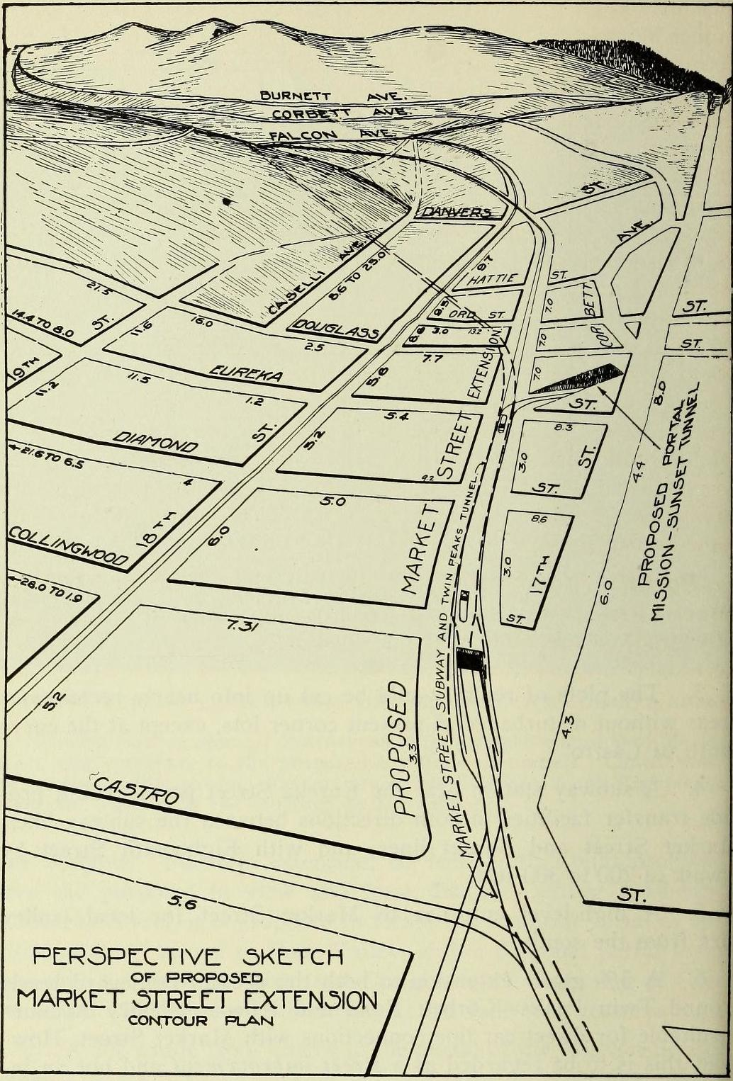 Figure 54 - Perspective sketch of Eureka Valley. Showing Market Street extension and relative position of Eureka Valley station and Mission-Sunset tunnel. Also indicating the impossibility of extending Market Street straight across Eureka Valley if an outlet is desired. This secures easy grade for both tunnel and street.